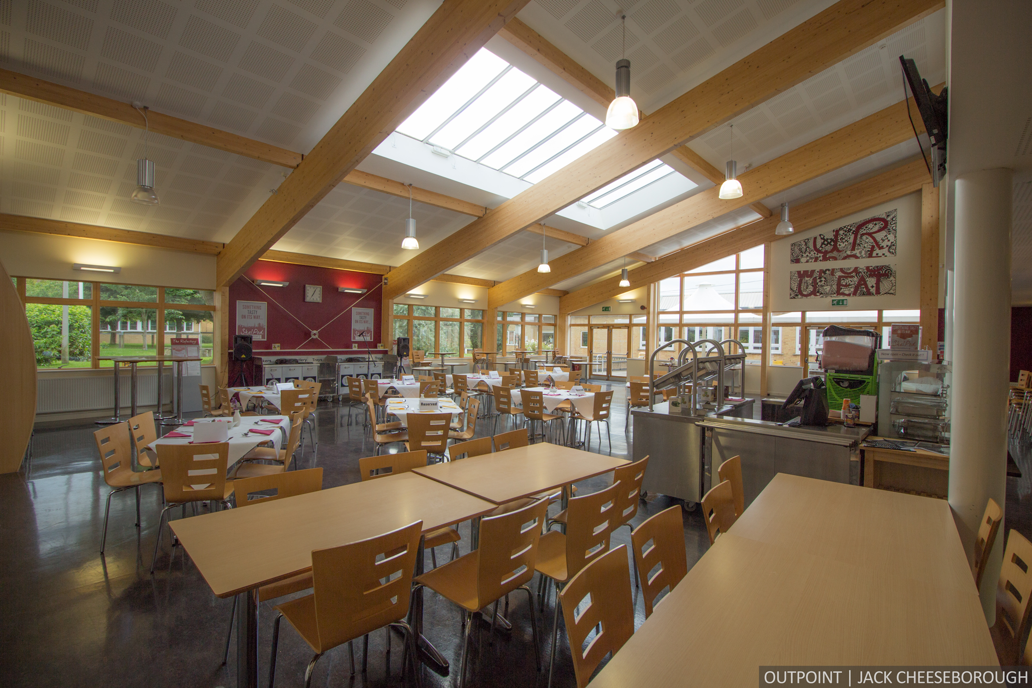 Wide angle shot of Sheldon School's Refectory dining area in 2016